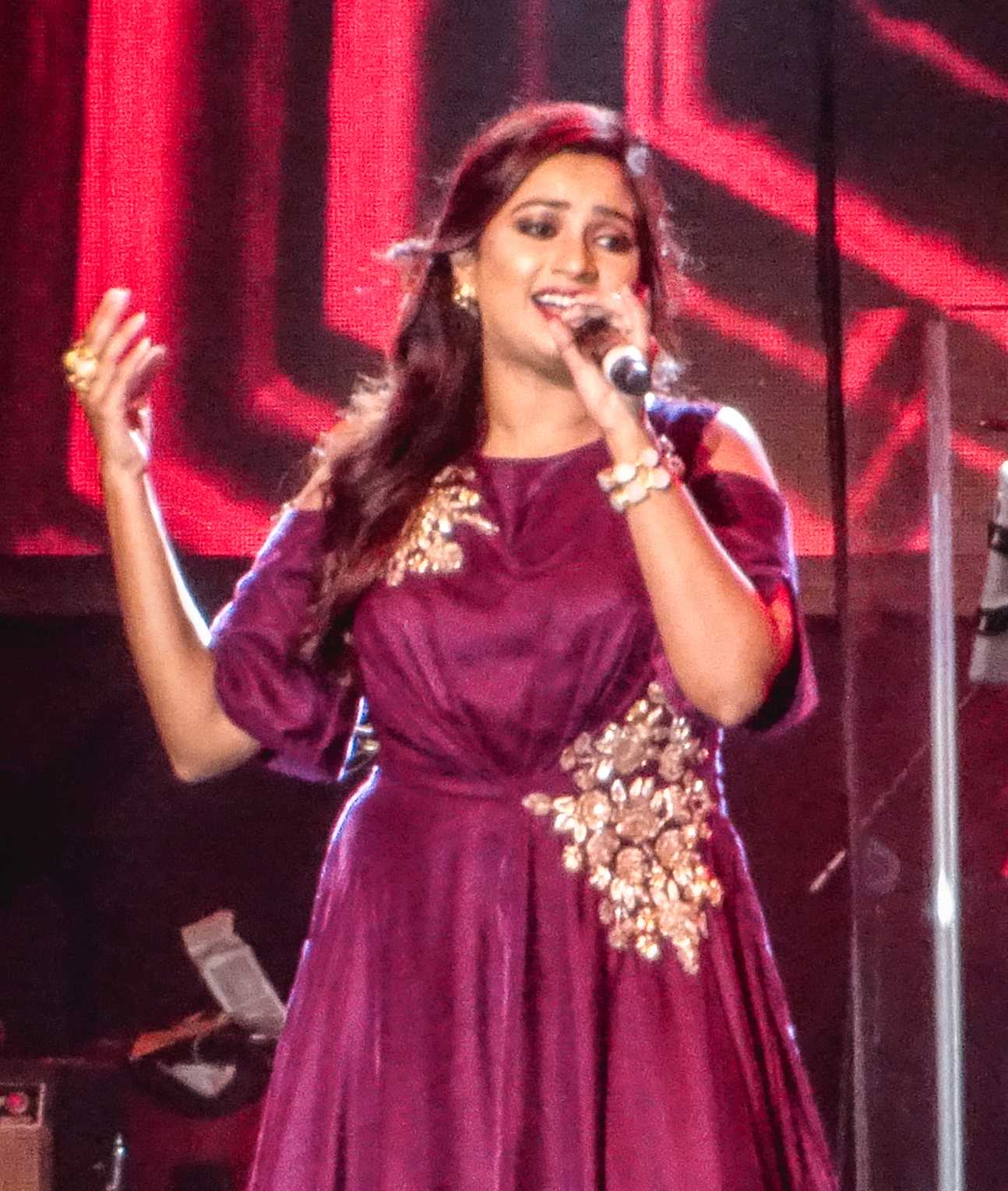 Shreya Ghoshal performing at a Concert in Bangalore, Feb 2018